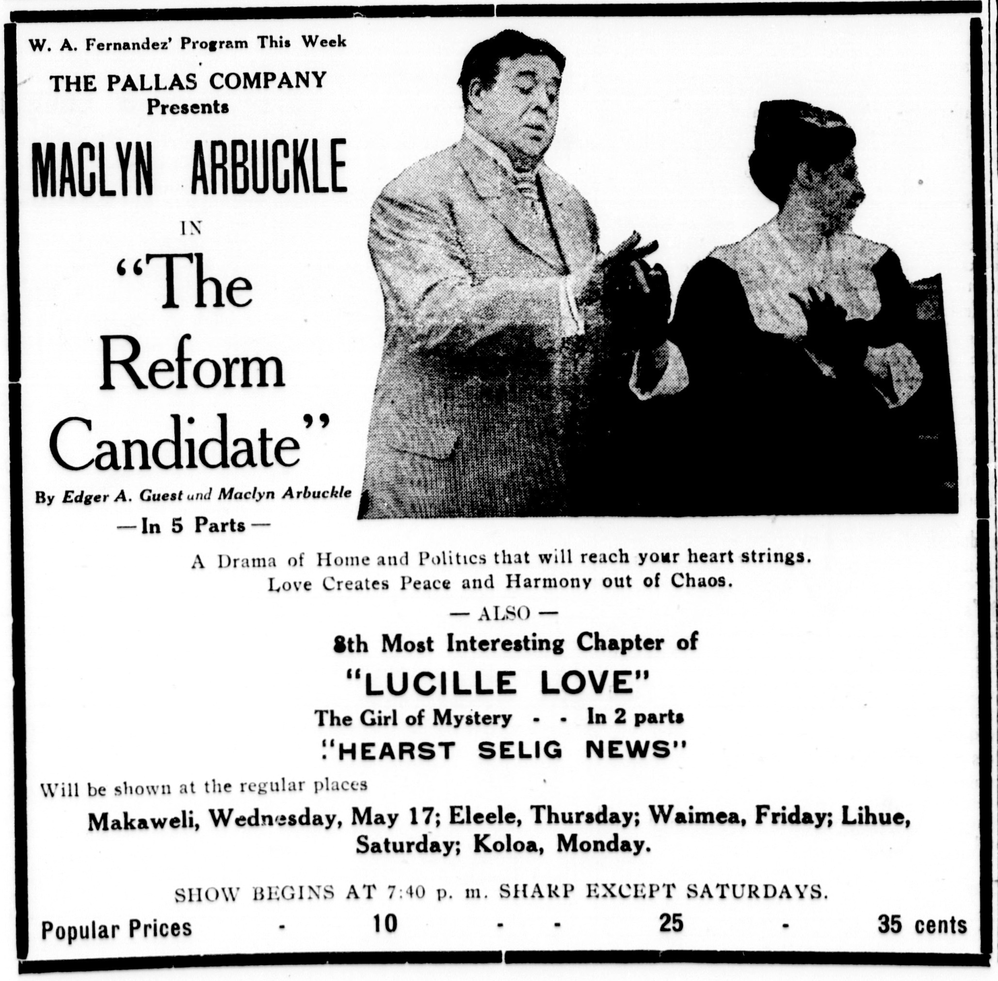 The Reform Candidate is a 1915 American drama silent film directed by Frank Lloyd and written by Julia Crawford Ivers. This is advert published in a newspaper.